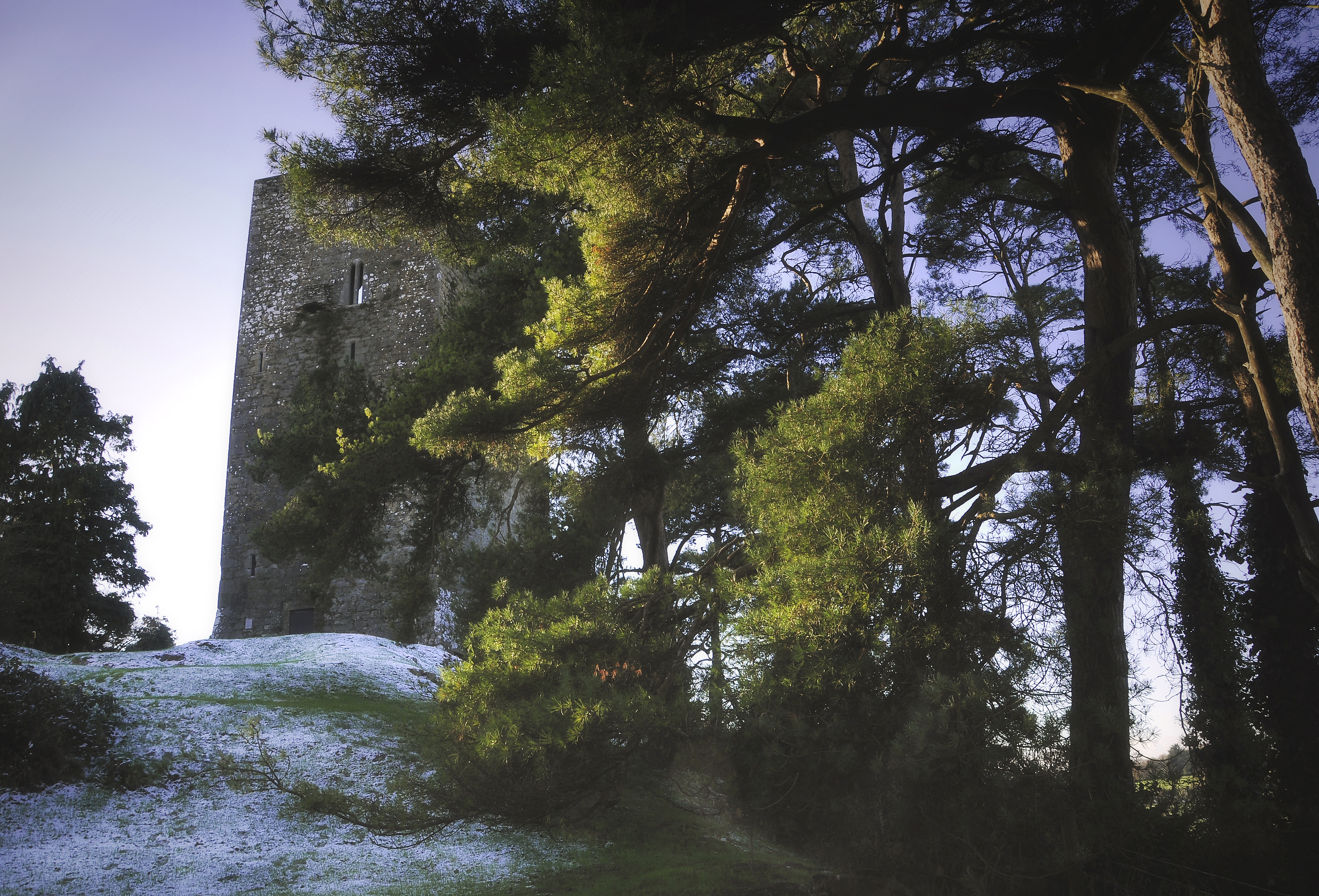 An view of Conna Castle from the east. Conna, County Cork, Ireland